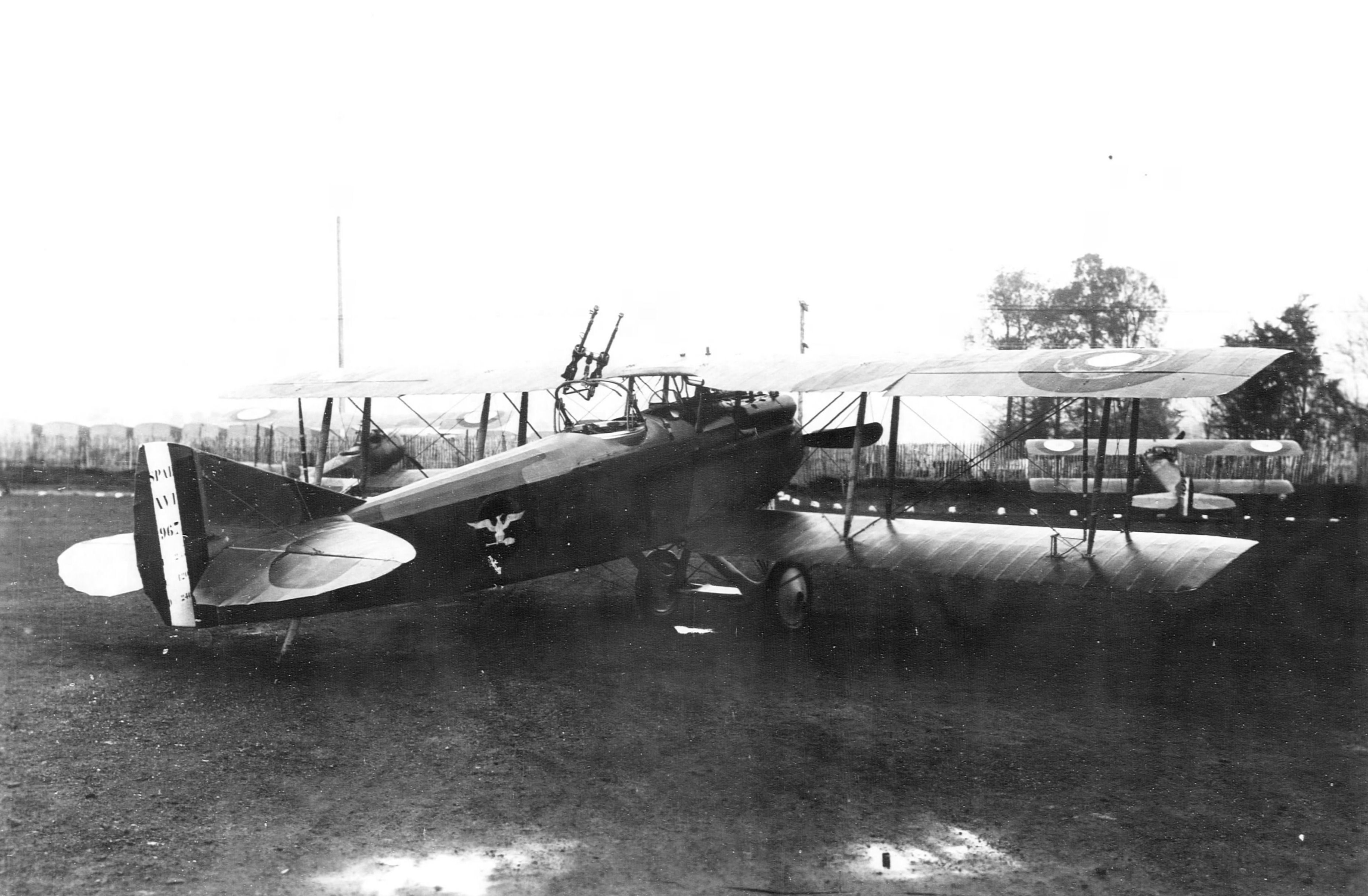 SPAD S.XVI at Air Service Production Center No. 2, Romorantin Aerodrome, France, 1918